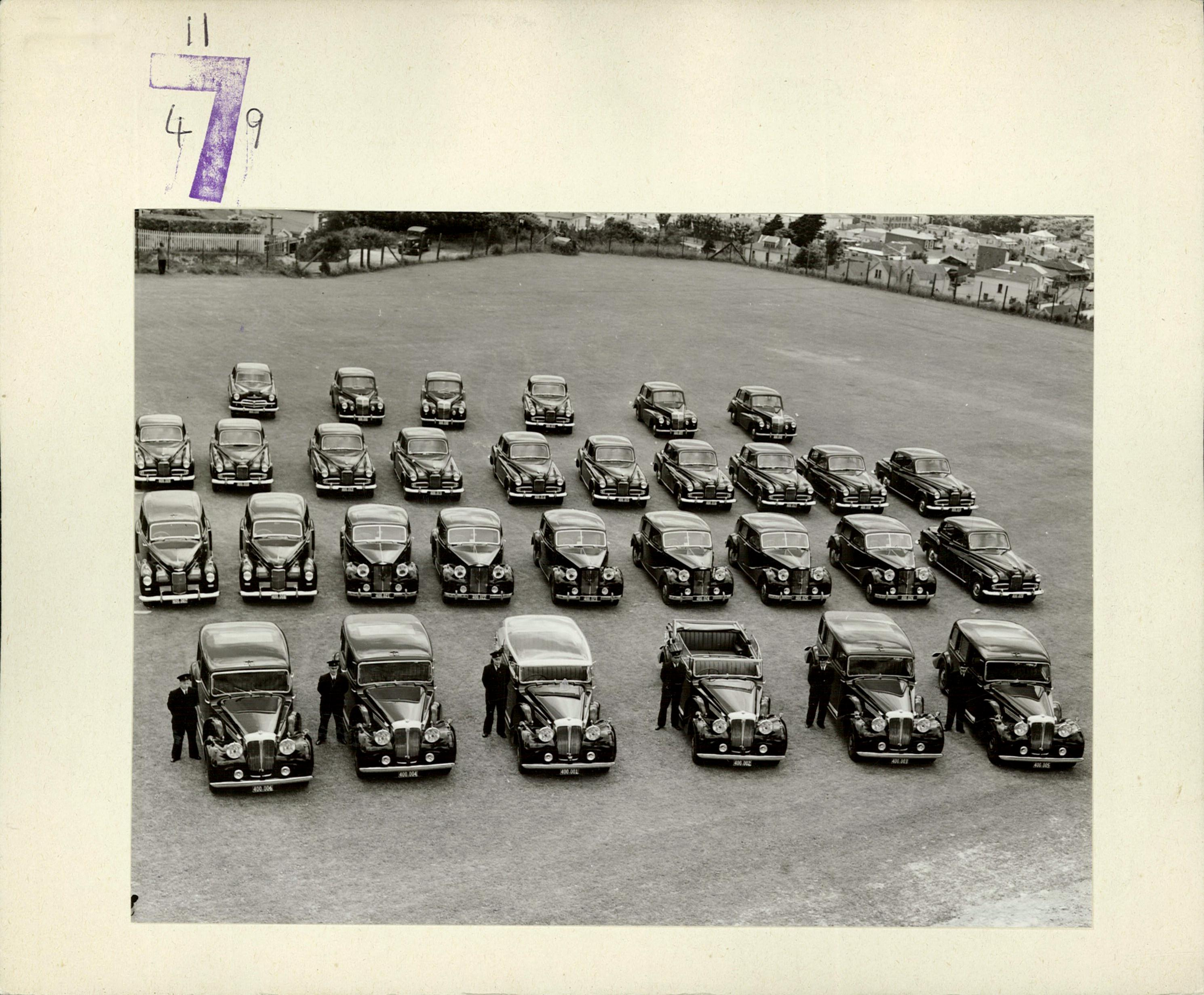 A fleet of cars was purchased for the planned visit of King George VI and Queen Elizabeth to New Zealand in 1952. This photograph, from the Former Post and Telegraph/Telecom Museum Holdings series, shows the official fleet of Daimler cars ready for the arrival of the newly-crowned Queen Elizabeth II and her husband Prince Philip in Wellington, 9 January 1954. 2 limousines—one at each end, in the middle 2 all-weather cars (one with clear perspex head), 2 landaulettes—on either side of the all-weather cars. Also 2 Humber Pullman, 6 Austin Princess, 12 Humber Super Snipe (police escort), 4 Daimler Conquest, 1 Vauxhall Velox (probably in) Yard between Government House and Wellington Public Hospital. For further enquiries please Archives reference: AAME 8106 W5603 113/ 11/4/9